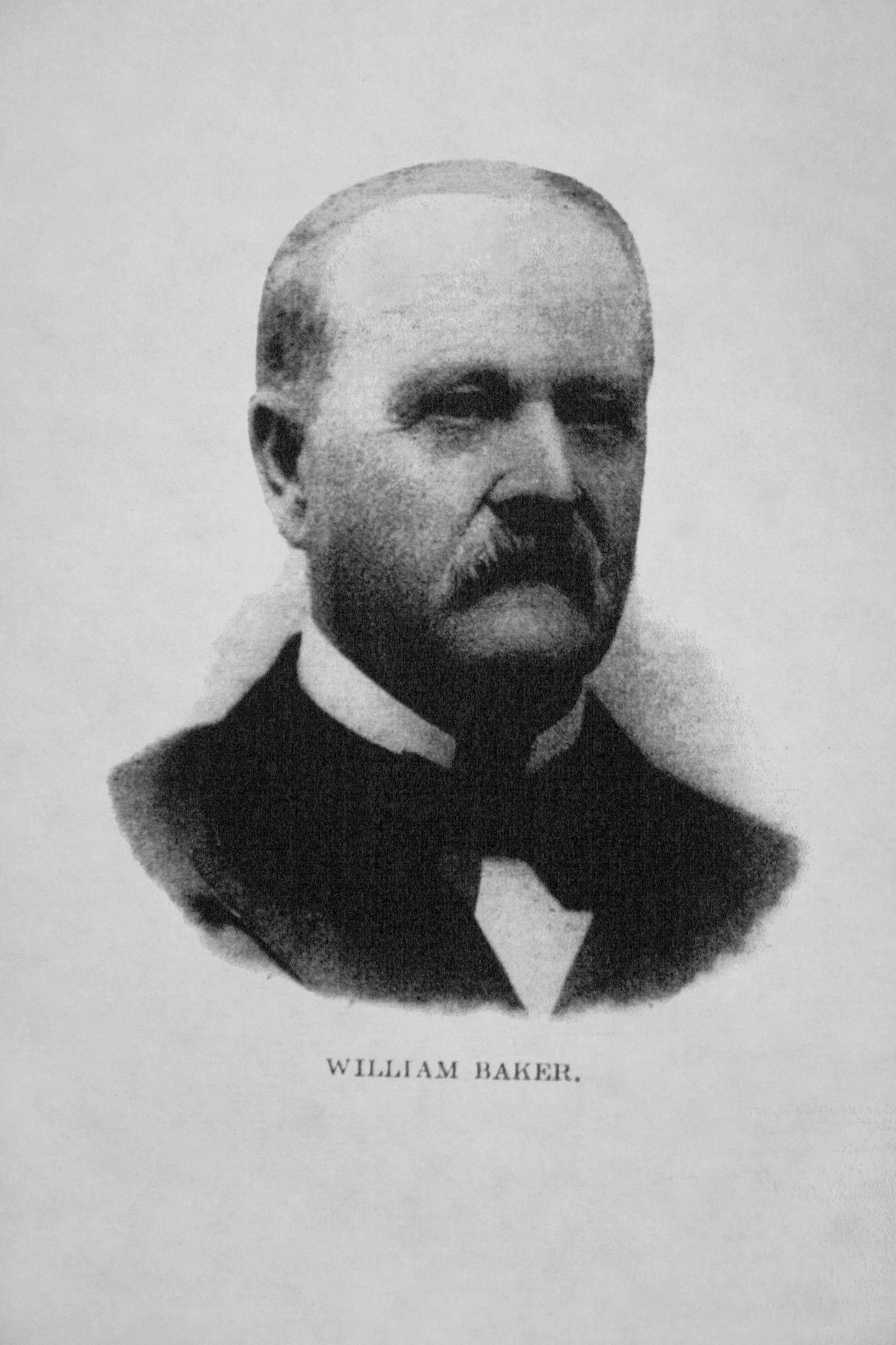 Portrait of Rep. William Hewitt Baker, Kansas Sixth District of 22 counties, in Congress from March 4, 1891 to March 4, 1897.